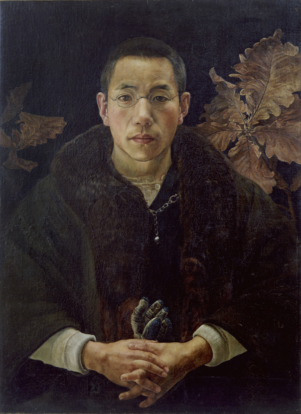 Taken from - it's public domain in Japan, the country of origin